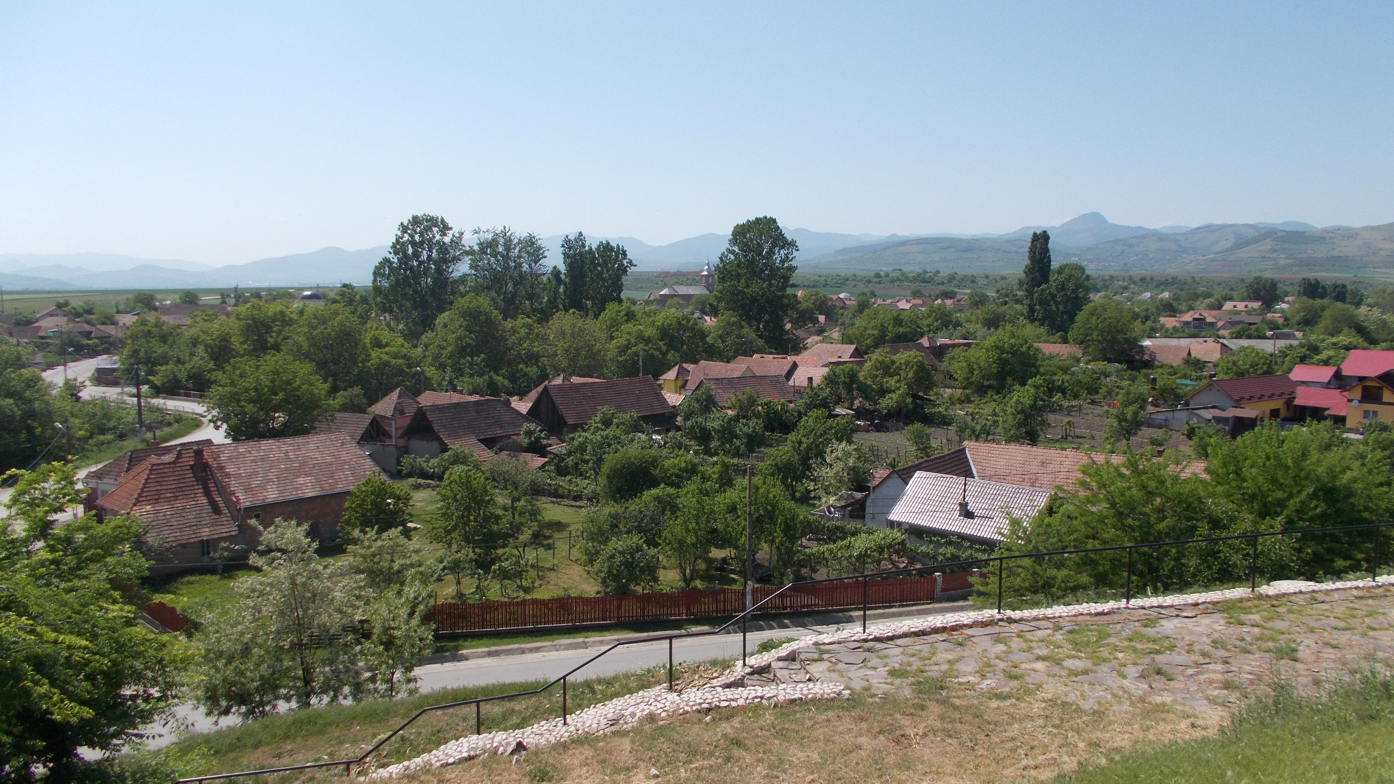 Galda de Jos, Alba County, Romania